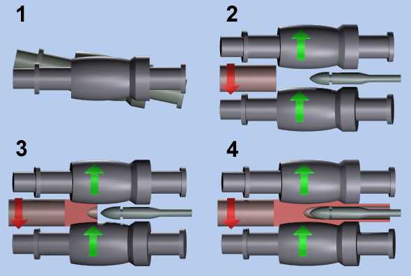 A schematic of rotary piercing. Key: Roller configuration The process starts with the blank fed in from the left. The stresses induced by the rolls causes the center of the blank to fracture. Finally, the rolls push the blank over the mandrel to form a uniform inner diameter.